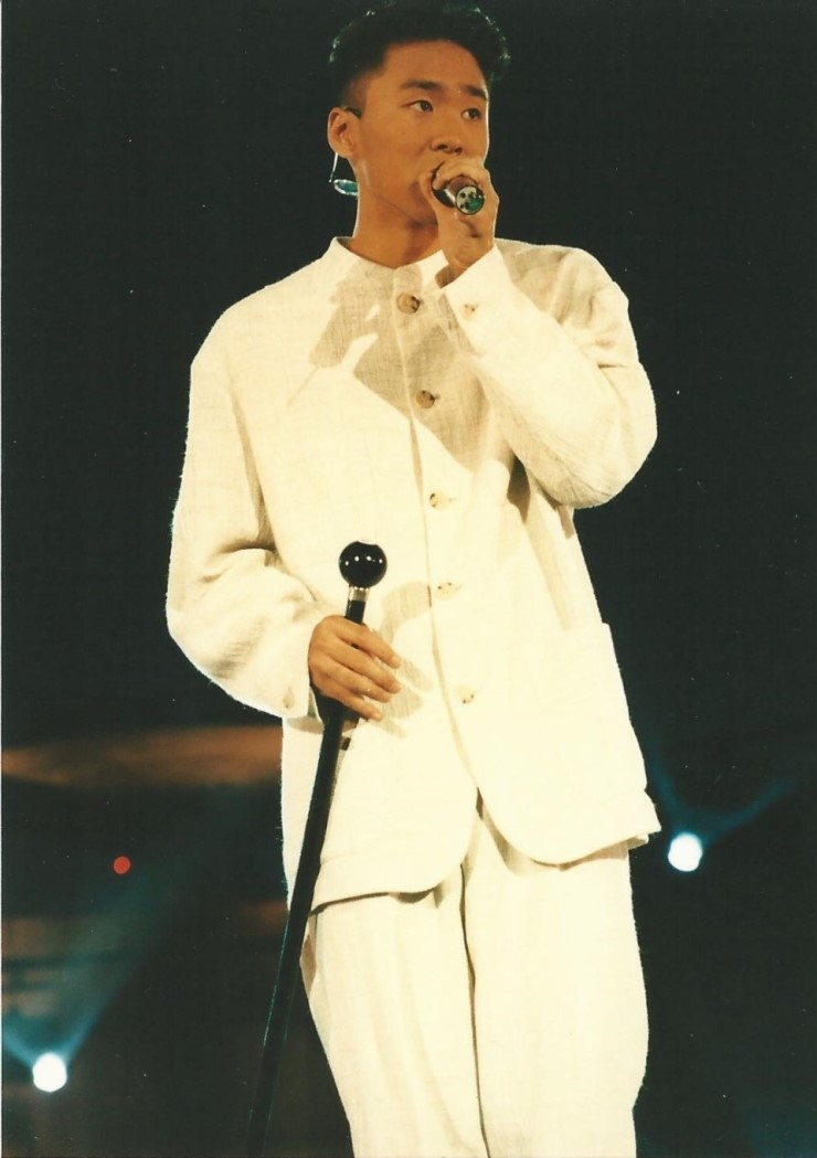 JoonLee95